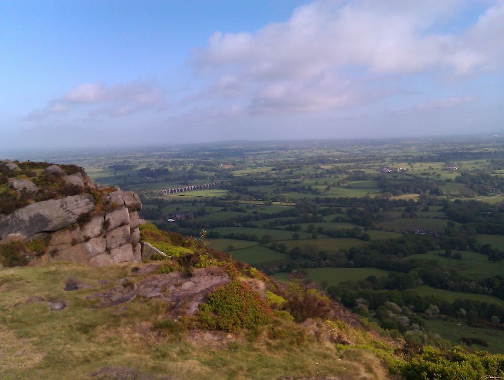 The view from the summit of Bosley Cloud looking north over Cheshire East.